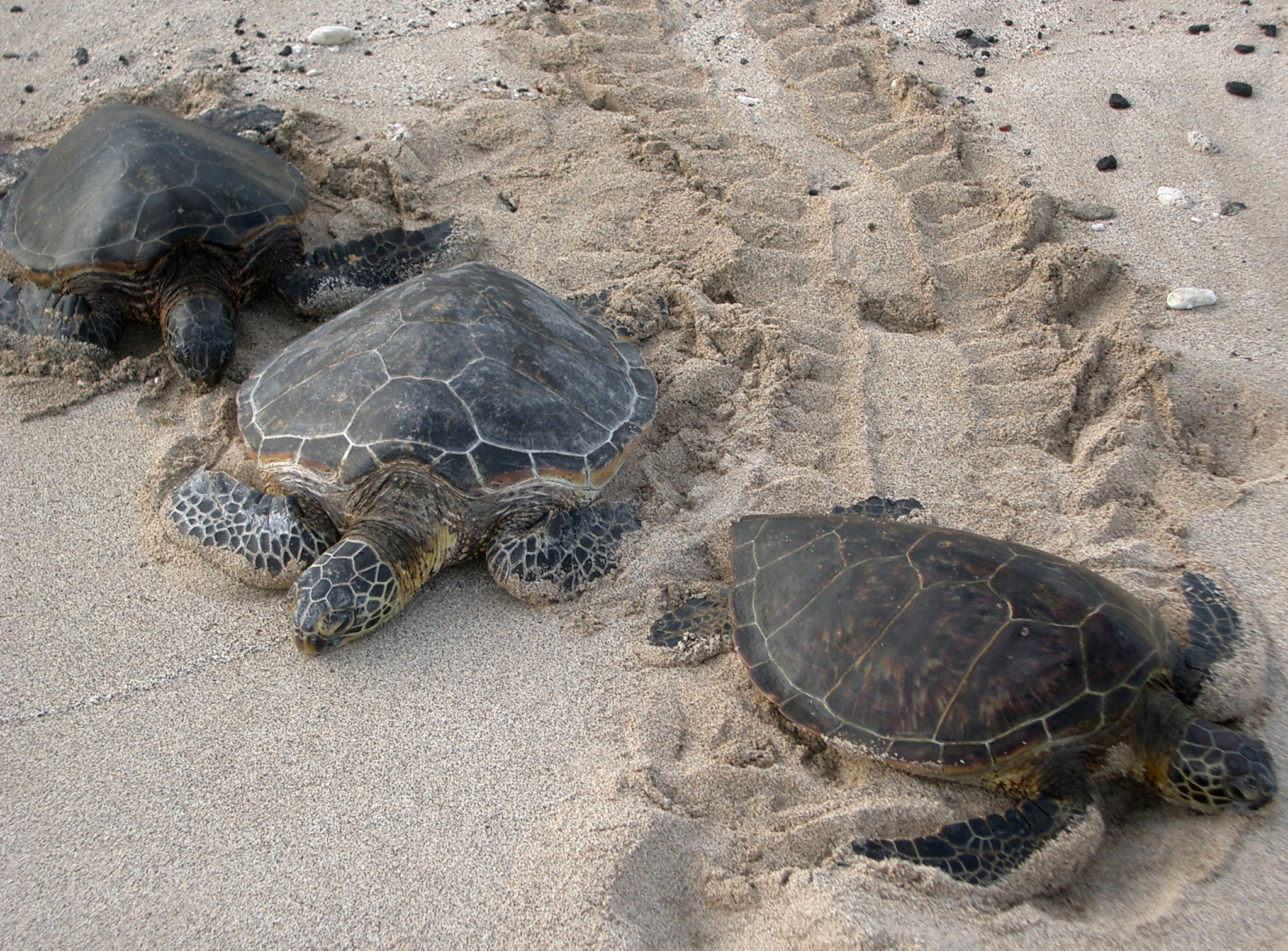 female Green turtles (Chelonia mydas)Beaching